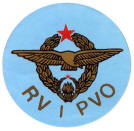 This is Logo of SFR Yugoslav Air Force.